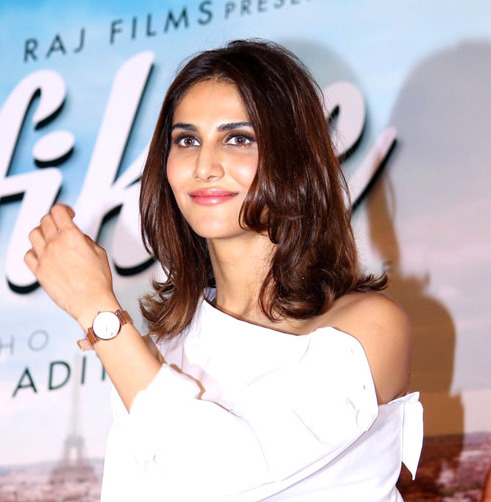 Vaani Kapoor from Befikre promotional event